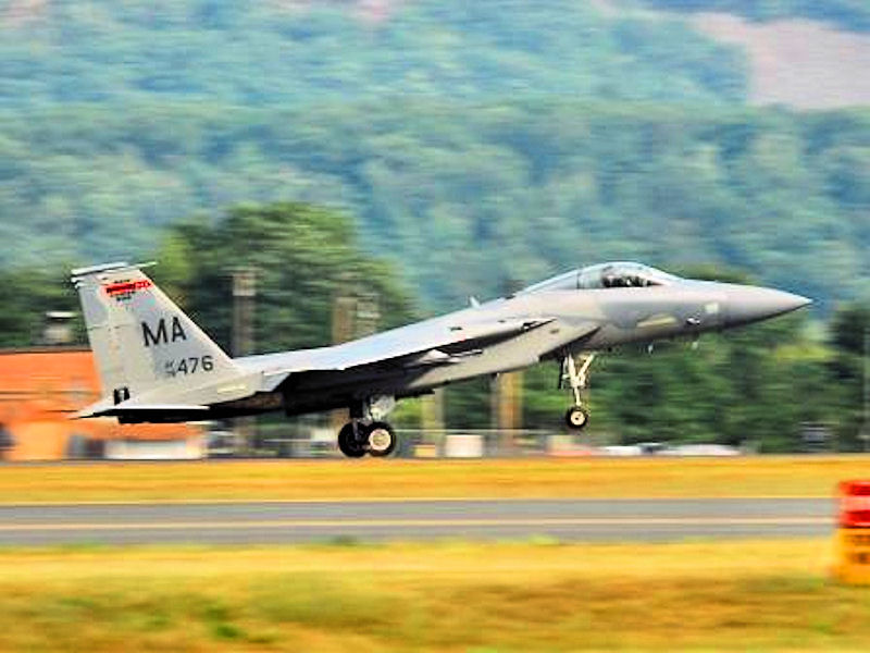 131st Fighter Squadron - McDonnell Douglas F-15C-21-MC Eagle 78-0476